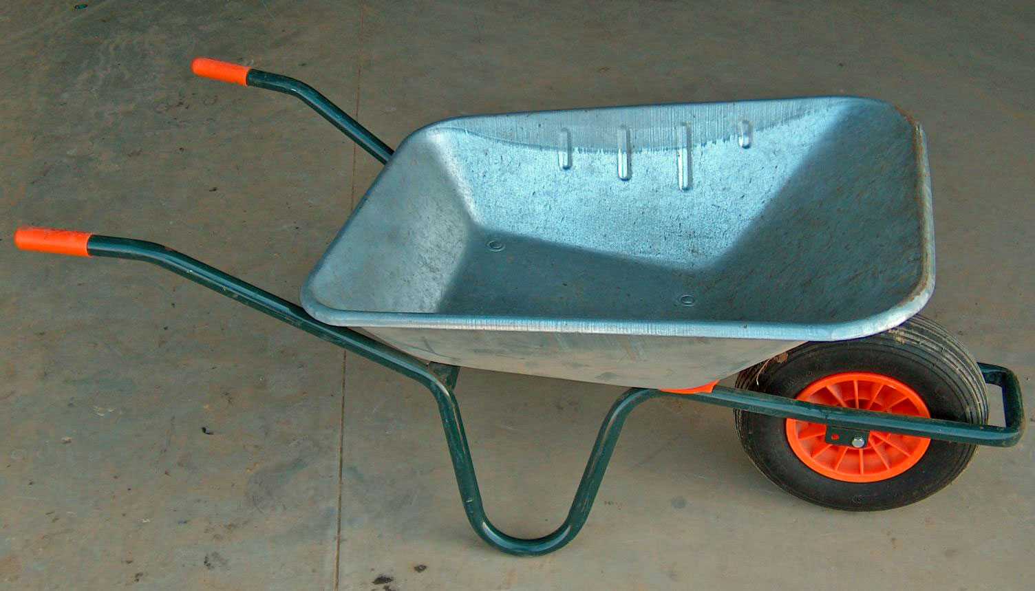 Modern wheel barrow